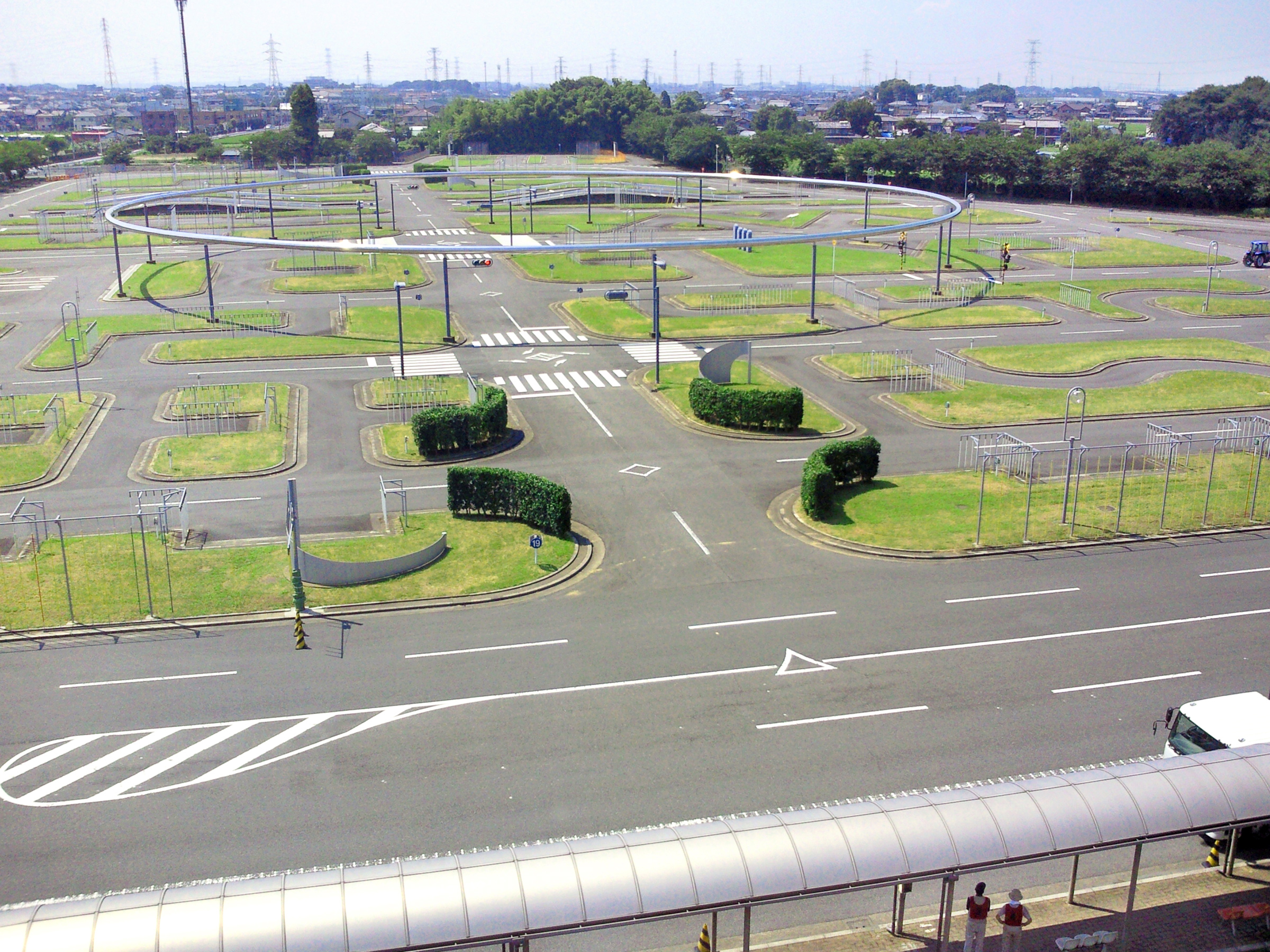 Saitama-ken Unten Menkyo Center (Saitama Pref. Driver's License Center, in Kōnosu) Exam Section